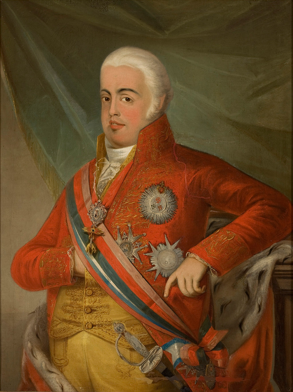 Painting of João VI, King of Portugal